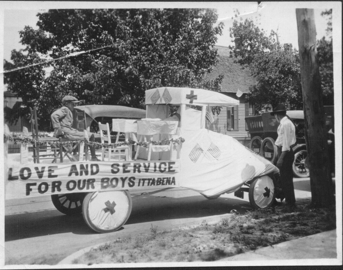 World War I parade float in Itta Bena, Leflore County, Mississippi